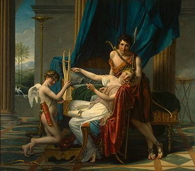 Sappho and Phaon, 1809